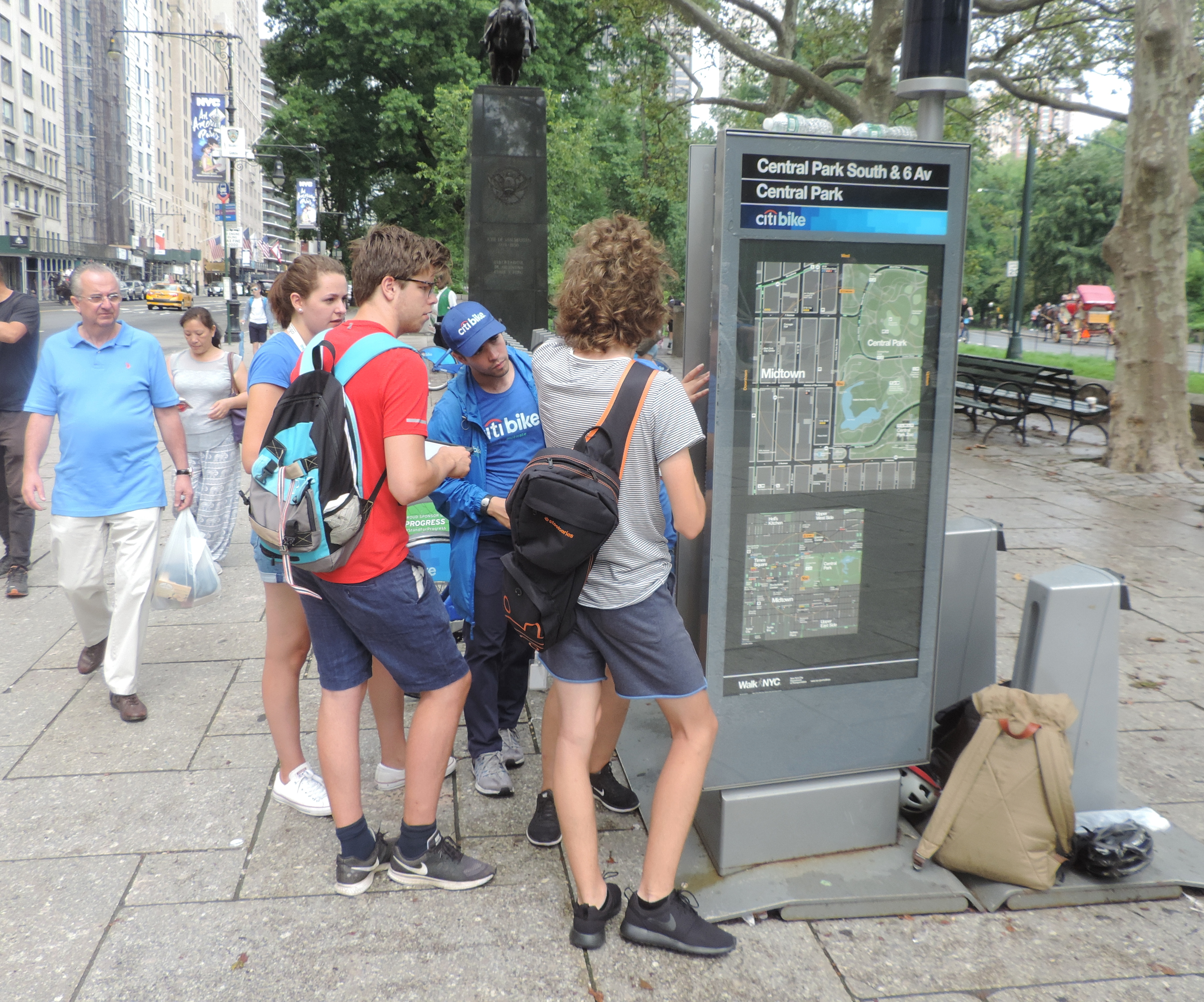 Looking west from Center Drive as Citi Bike guide explains kiosk to tourists